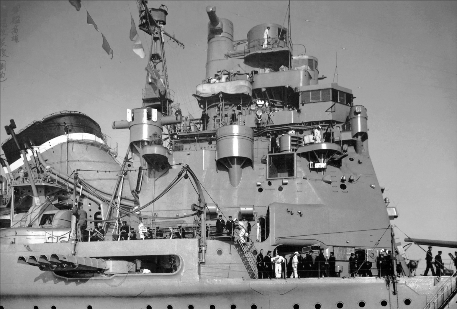 A central part japanese heavy cruiser Takao after modernisation.